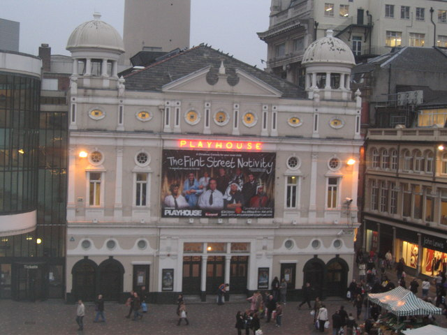 Playhouse Theatre Taken from The Big Wheel in Williamson Square, December 2006